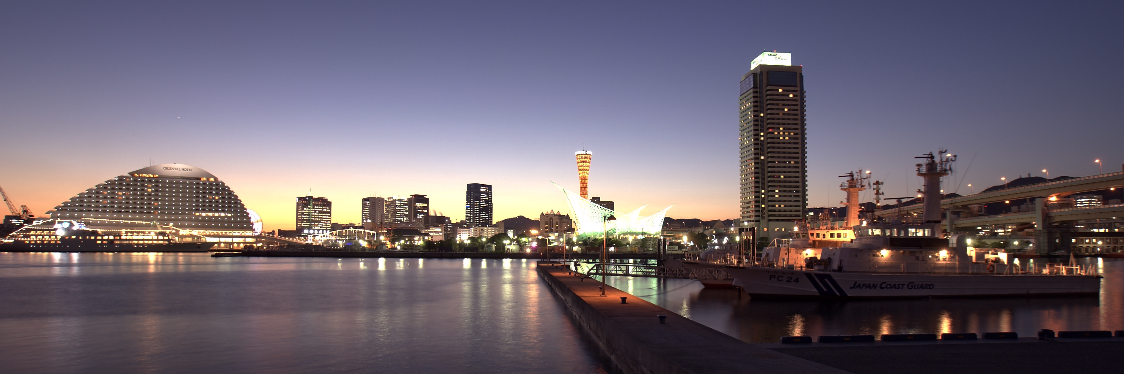 Port of Kobe at the time of twilight in Kobe, Hyogo prefecture, Japan